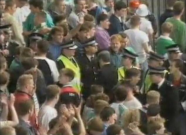 Police presence amongst the CCS at the segregation fence during Mercer Derby game against Hearts